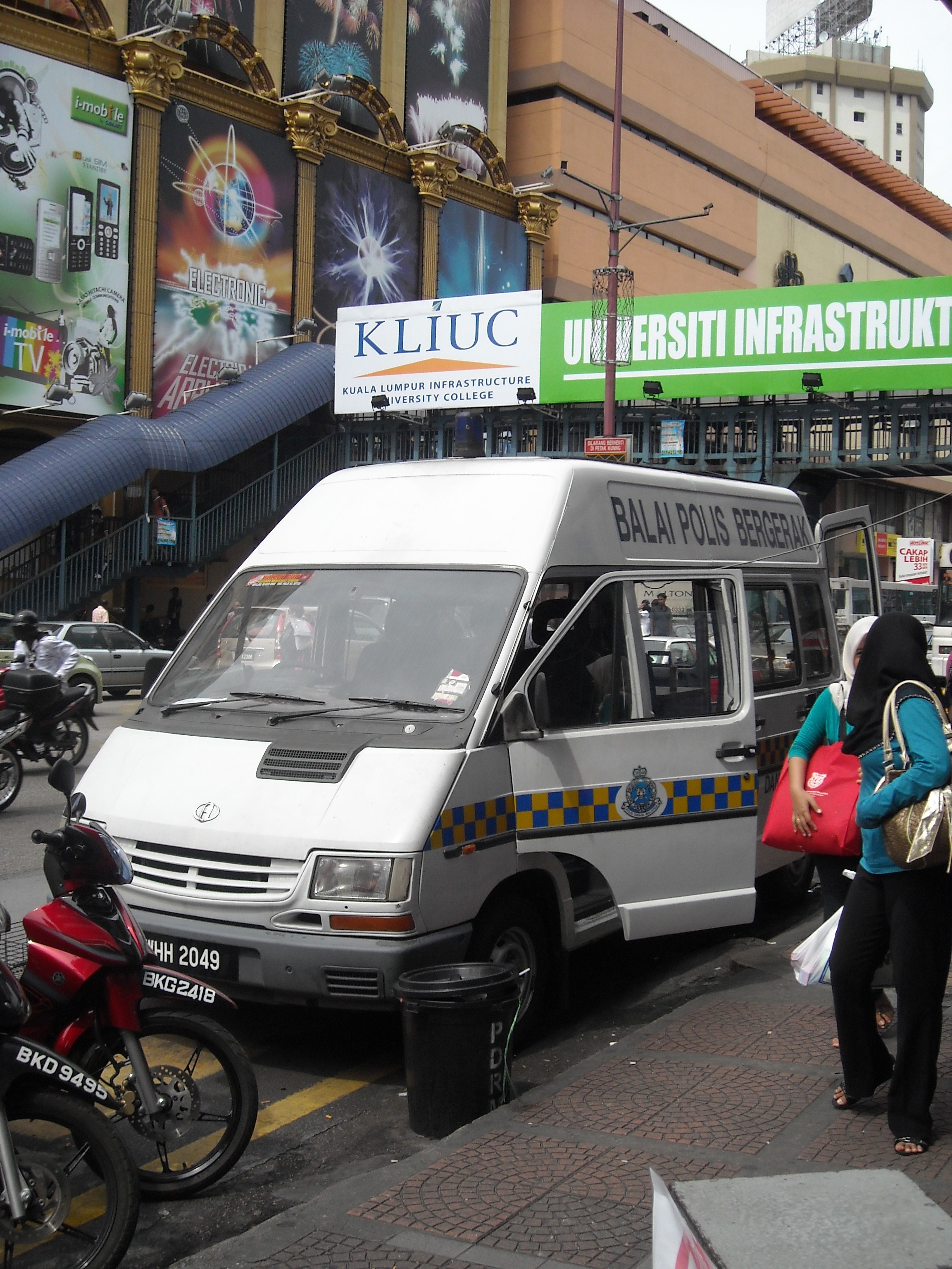 The Dang Wangi District Police HQ Mobile Police Station, an Inokom Permas, taken by the uploader at Puduraya China Town, Kuala Lumpur.